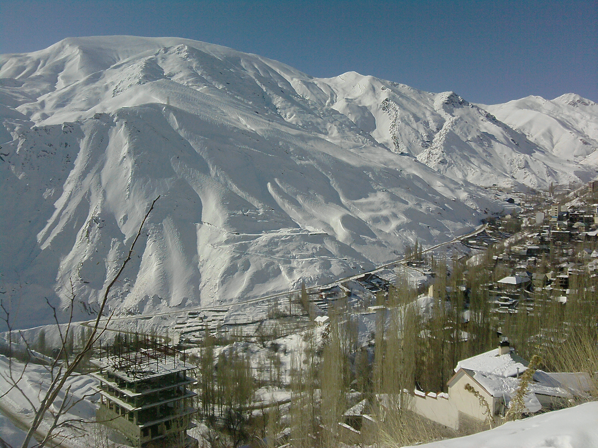 SKY PLACE TEHRAN